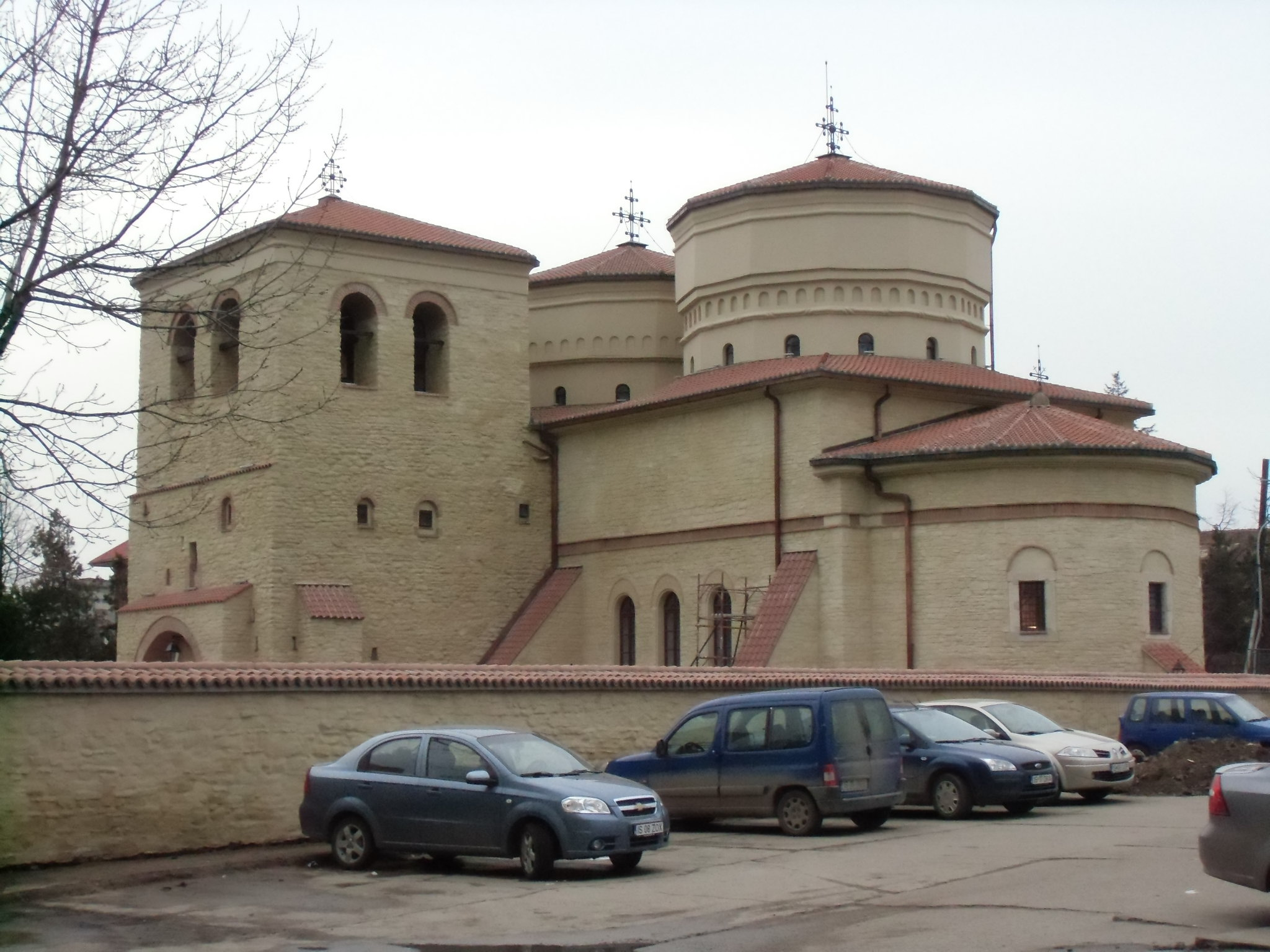 Saint Sava Church, Iaşi, Romania (1583)